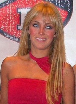 The RBD (Rebelde) member Anahí at the REBELDE Press conference - Before